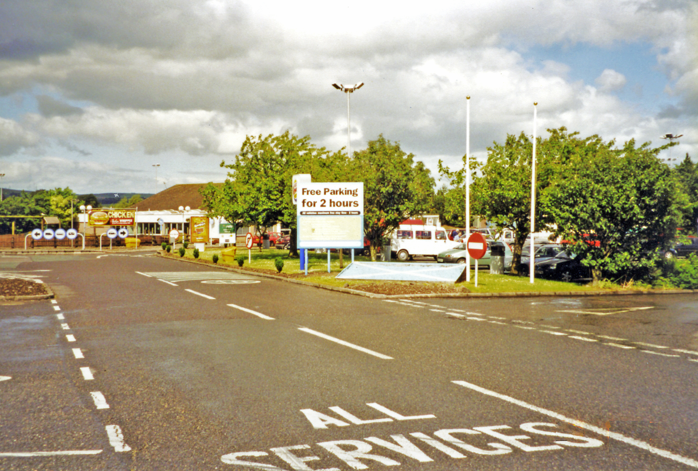 Approaching Kinross Services on M90, 2002 - site of Kinross Junction station. View northward, towards Perth: ex-NBR Edinburgh etc. - Dunfermline - Perth main line, junction of the Devon Valley line from Alloa. Nothing remains here of the railways, because the station was closed 5/1/70 along with the line Cowdenbeath - Perth (goods continued Kelty - Milnathort until 4/5/70), the line from Alloa having been closed to passengers from 15/6/64 and to goods up to 1973. Subsequently the M90 motorway was built for many miles on the course of the railway to Perth.